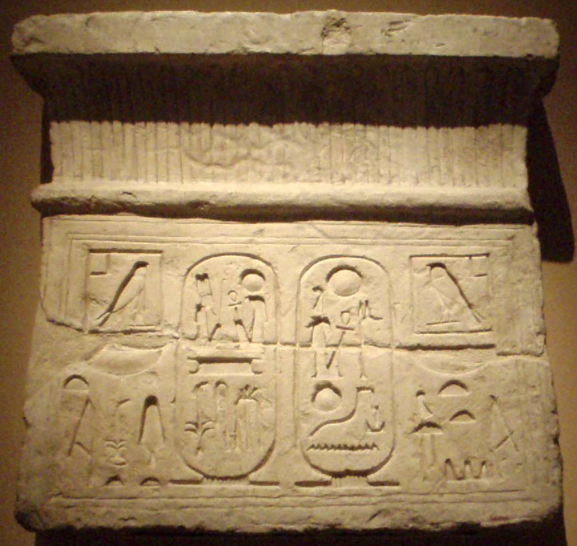 Votive stela of Ramessess II.